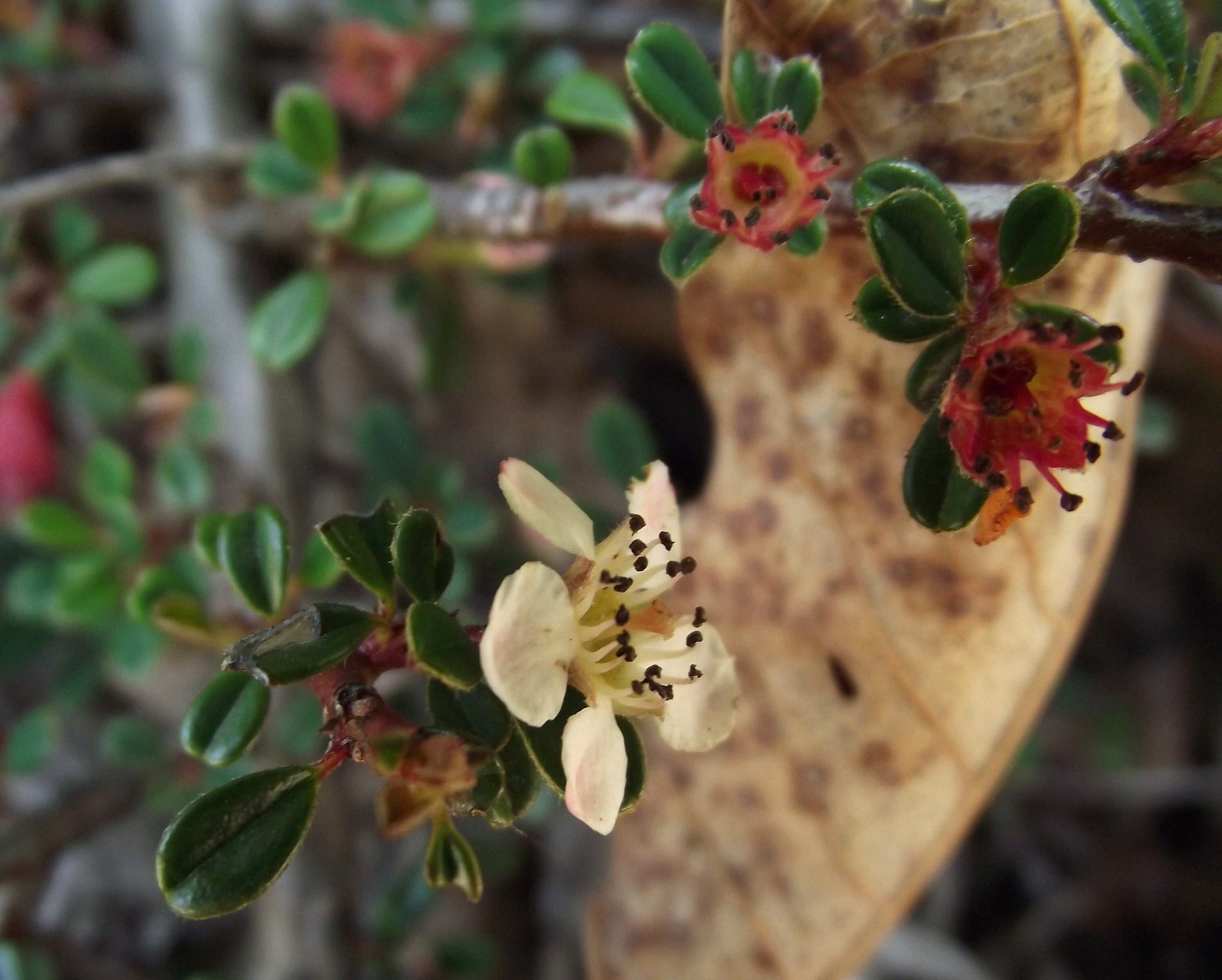 Cotoneaster congestus in the UC Botanical Garden, Berkeley, California, USA. Identified by sign.